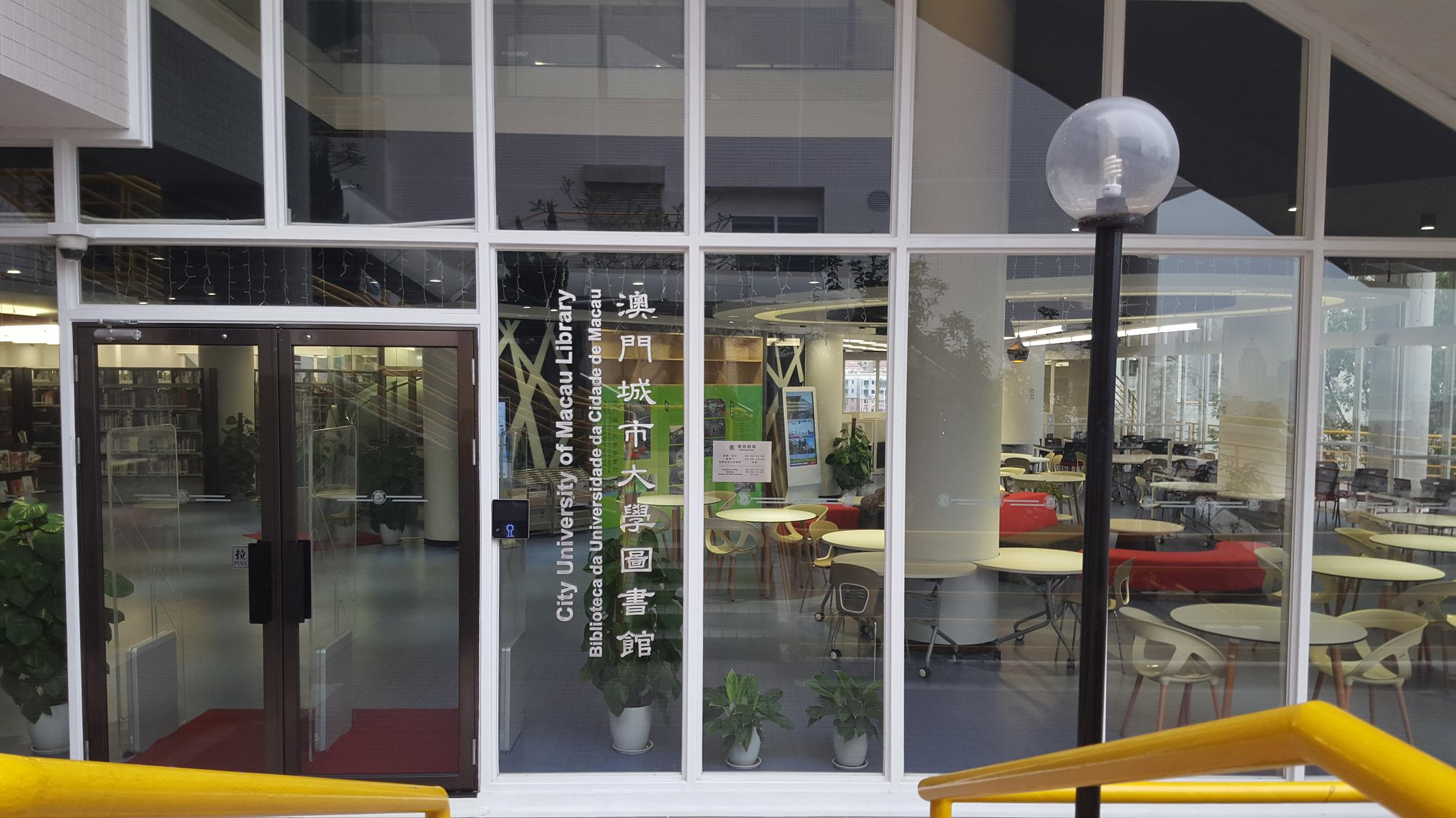 Library of City University of Macau